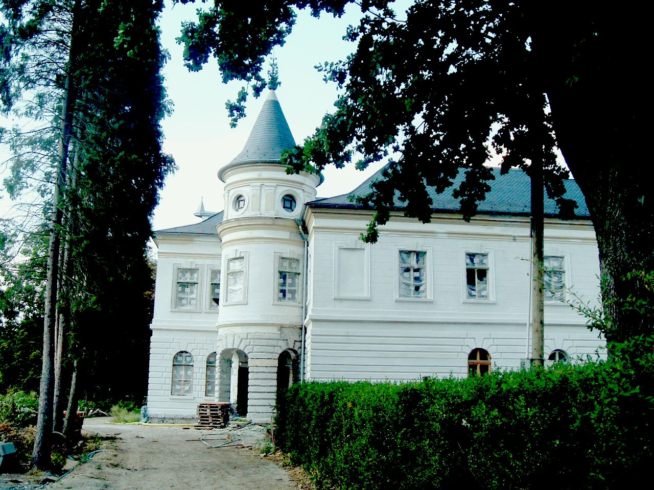 The Széll-mansion in Rátót This is a photo of a monument in Hungary, Identifier: 9274